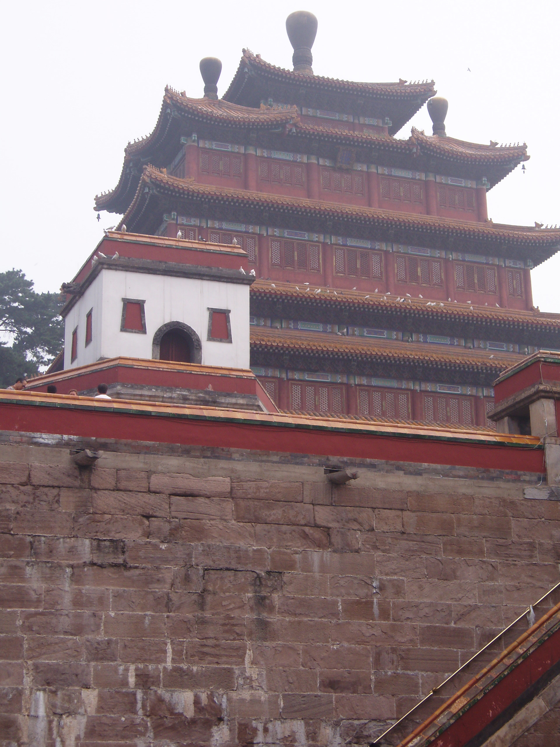 Puning Temple in Chengde, China